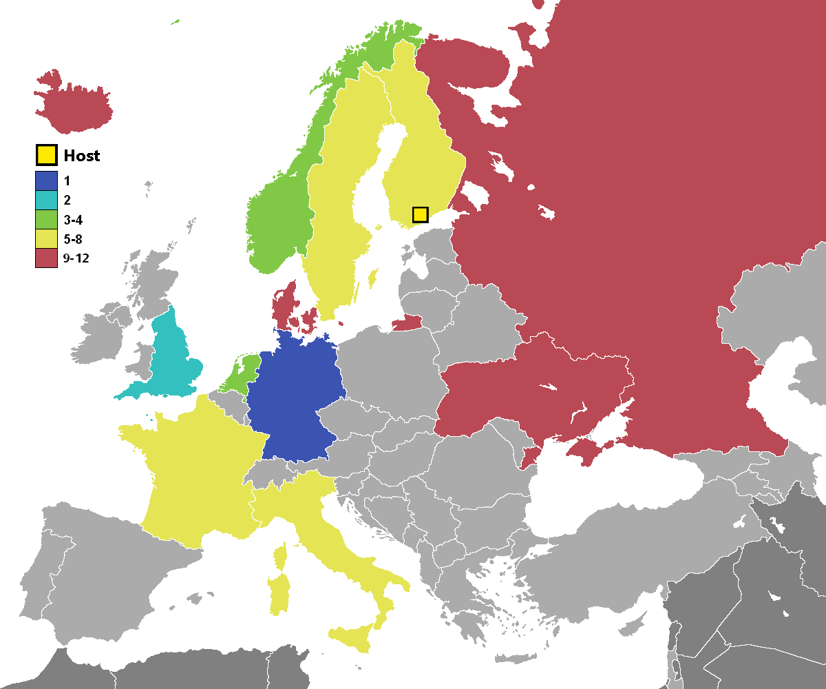 2009 UEFA Women´s Championship - participating countries.